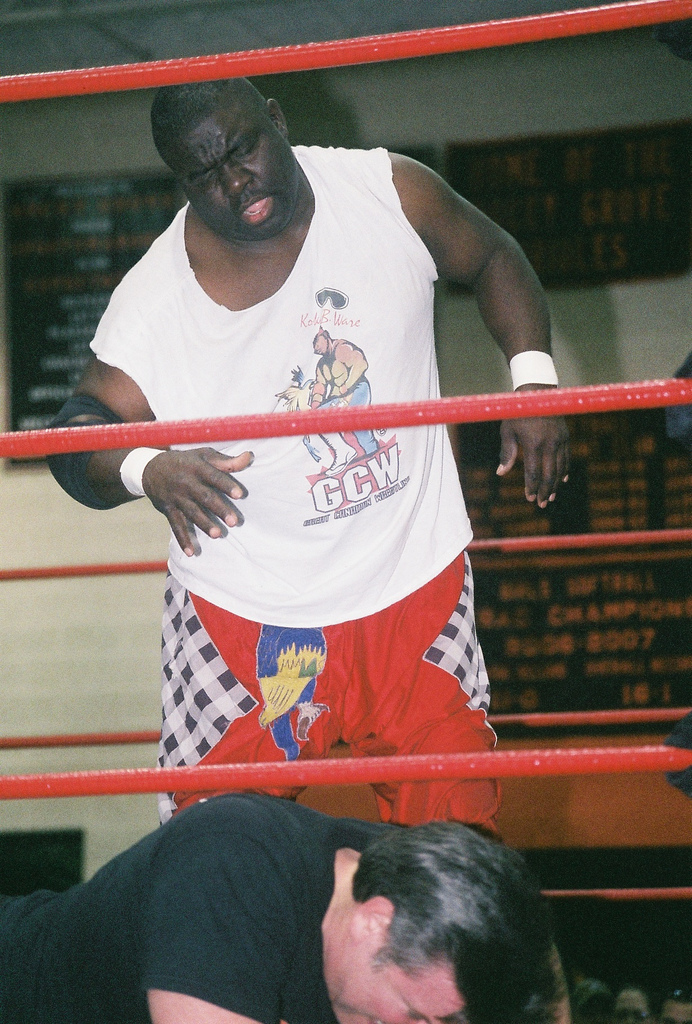 Match from Franklin, PA 4-10-10